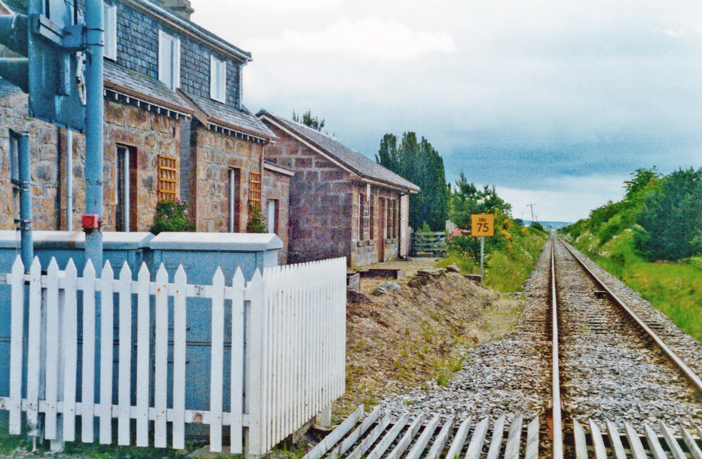 Former station at Delny, 1994. View SW, towards Dingwall and Inverness: ex-Highland Railway, Inverness - Dingwall - Thurso/Wick 'Far North' line. The station was to passengers 13/6/60, to goods 15/6/64, but the line flourishes